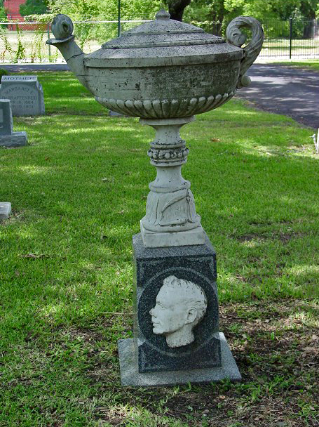 Grave monumnet W.C. Brann